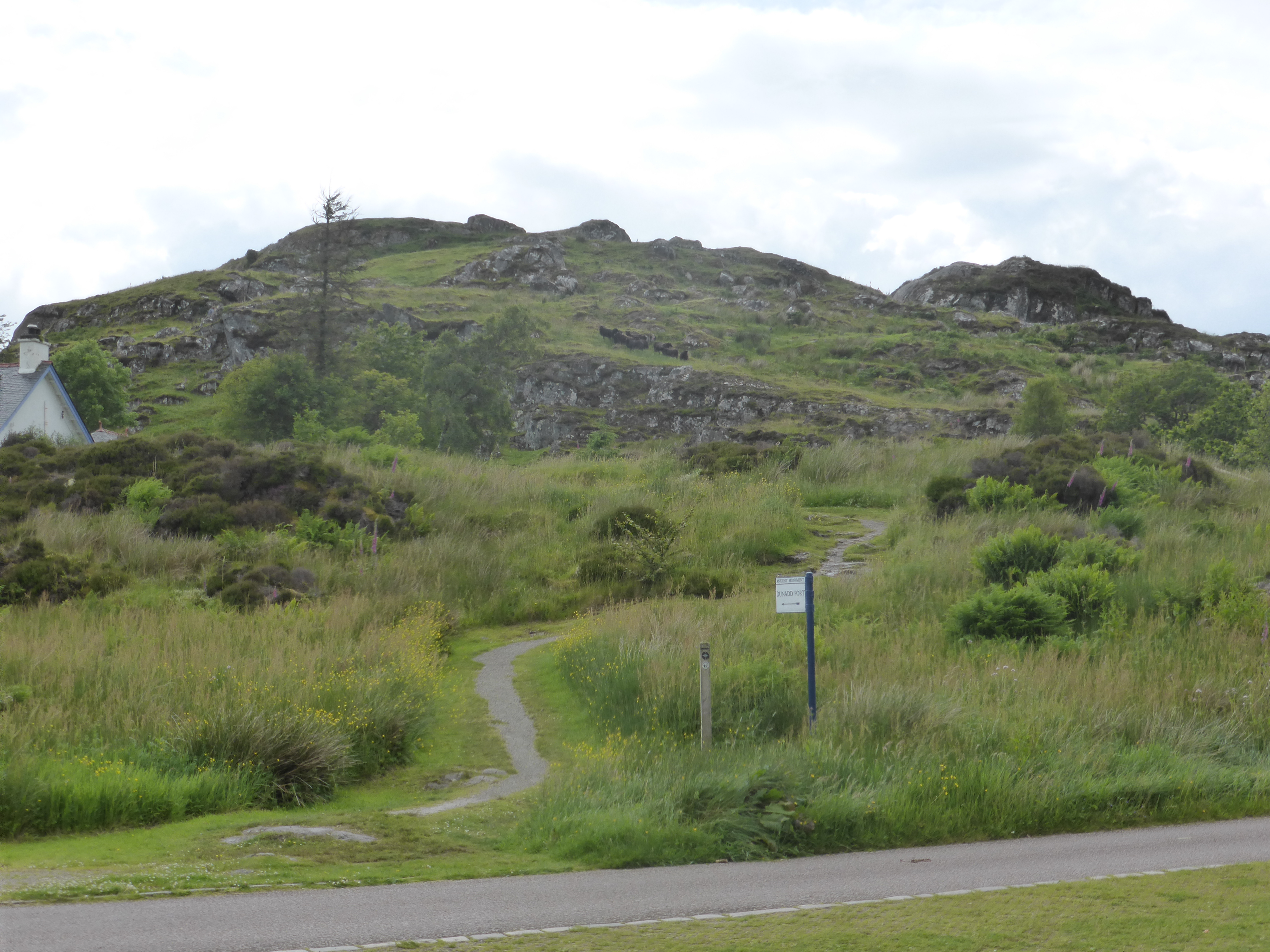 Atlas of Hillforts 2466. General view of the approach path.